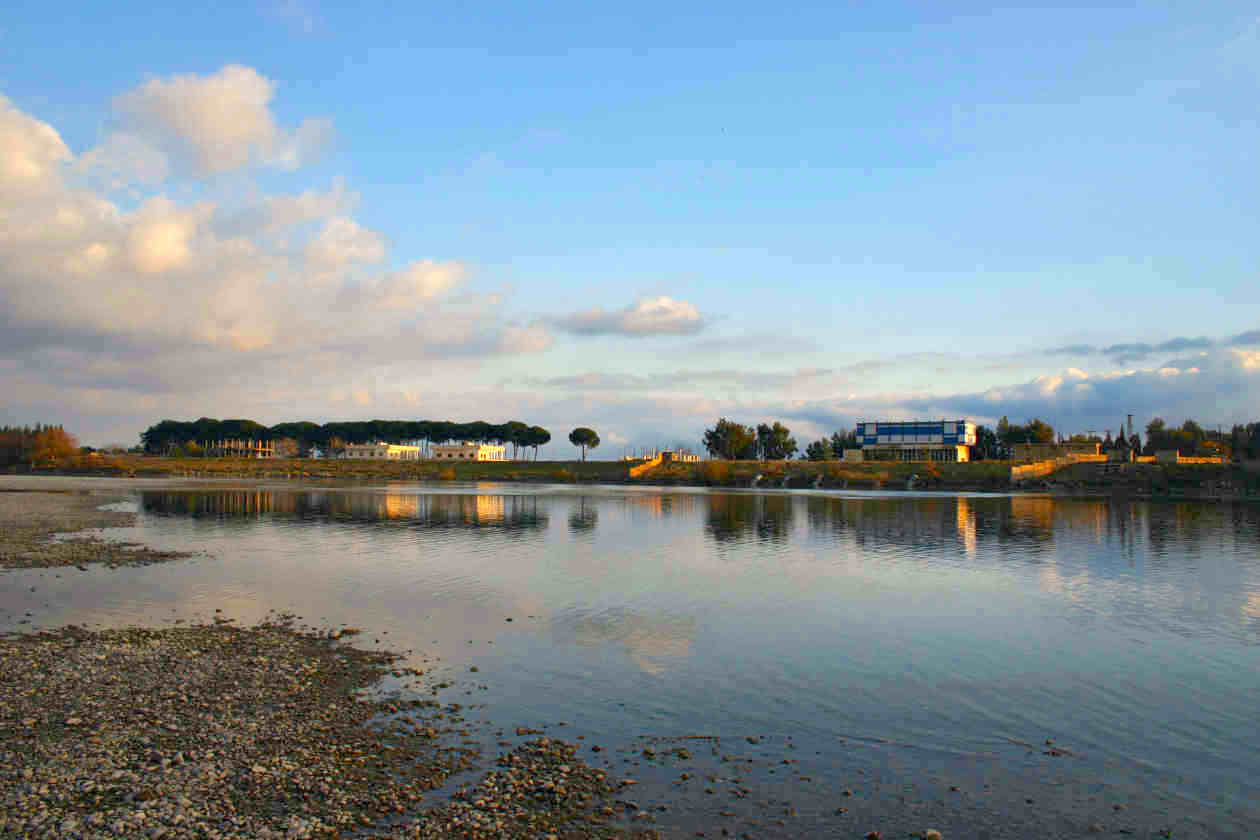 The Euphrates River near Raqqa More images of Syria are available on my web site. Check out the following direct links: A collection of pictures shot in 2003 in various places in Syria. A picture gallery about a 2005 trip in Syria. Being the creator of this work I hereby publish it under the following licenses: Creative Commons, Some Rights Reserved --Zelidar 06:16, September 4, 2005 (UTC)